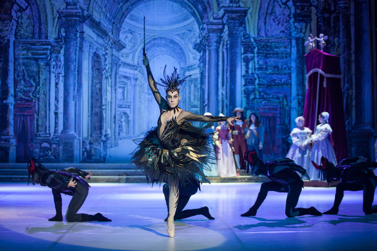 "Sleeping Beauty"; composed by Pyotr Ilyich Tchaikovsky; libretto written by Ivan Vsevolozhsky, based on Charles Perrault's "La Belle au bois dormant", according to the original choreography of Marius Petipa, directed by Vladimir Logunov, Ballet of the Serbian National Theatre, Novi Sad, 2012/13; Andreja Kulešević Srpski (latinica): „Uspavana lepotica” Petra Iliča Čajkovskog, libreto Ivan Vsevoložski prema istoimenoj bajci Šarla Peroa, prema originalnoj koreografiji Marijusa Petipaa u režiji Vladimira Logunova, Balet Srpskog narodnog pozorišta, Novi Sad, 2012/13; Andreja Kulešević Српски (ћирилица): „Успавана лепотица“ Петра Илича Чајковског, либрето Иван Всеволожски према источиној бајци Шарла Пероа, према оригиналној кореографији Маријуса Петипаа у режији Владимире Логунова, Балет Српског народног позоришта, Нови Сад, 2012/13; Андреја Кулешевић